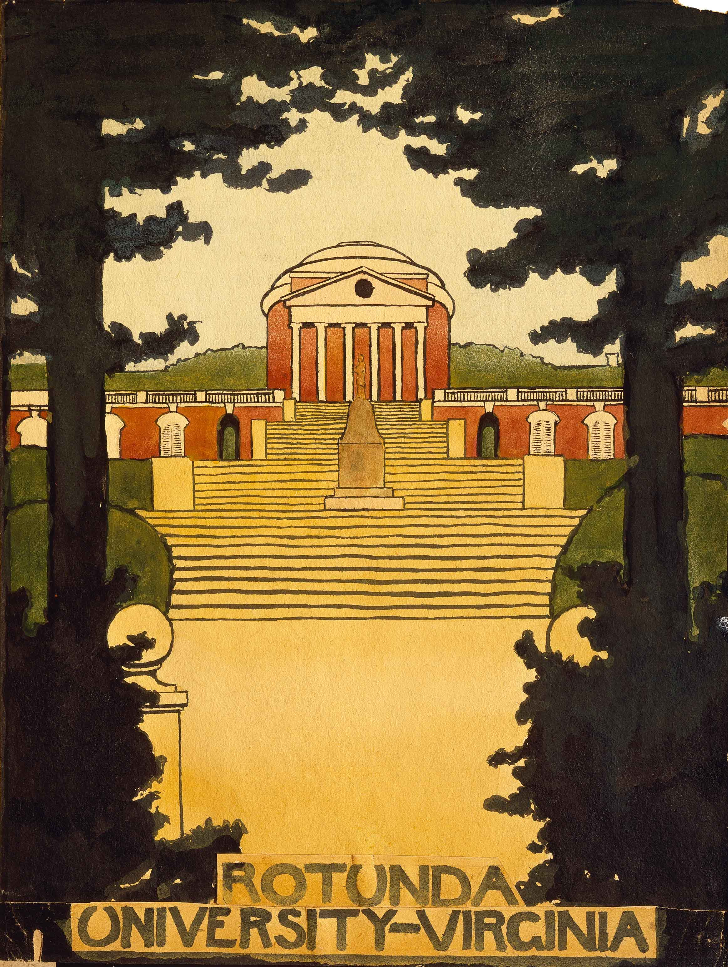 Georgia O’Keeffe, The Rotunda at University of Virginia, Scrapbook, watercolor on paper 11 7/8 x 9 (30.16 x 22.86), 1912-1914